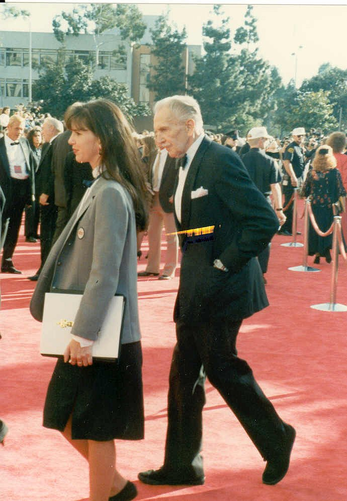 Vincent Price on the red carpet at the 1989 Academy Awards, March 29, 1989 - Permission granted to copy, publish, broadcast or post but please credit "photo by Alan Light" if you can